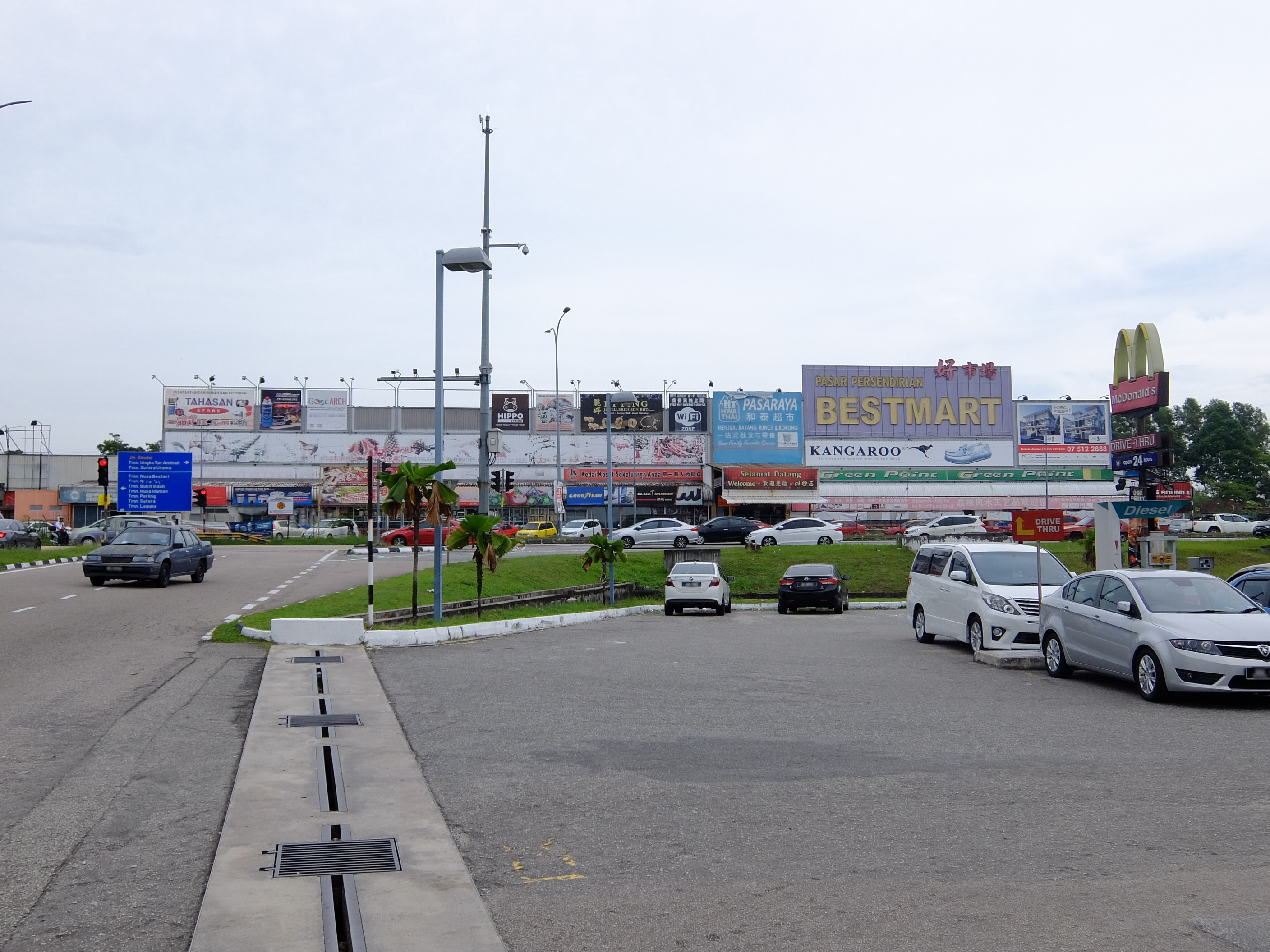 Bestmart, Nusa Bestari, Iskandar Puteri, Johor Bahru, Johor, Malaysia